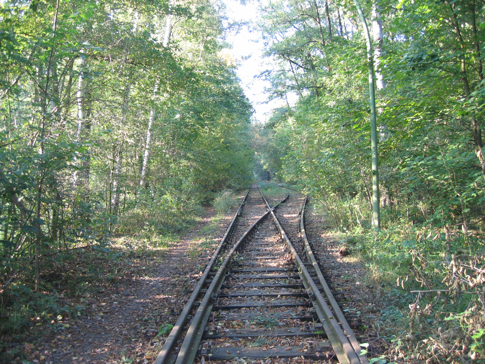 Havelländische Eisenbahn, former track